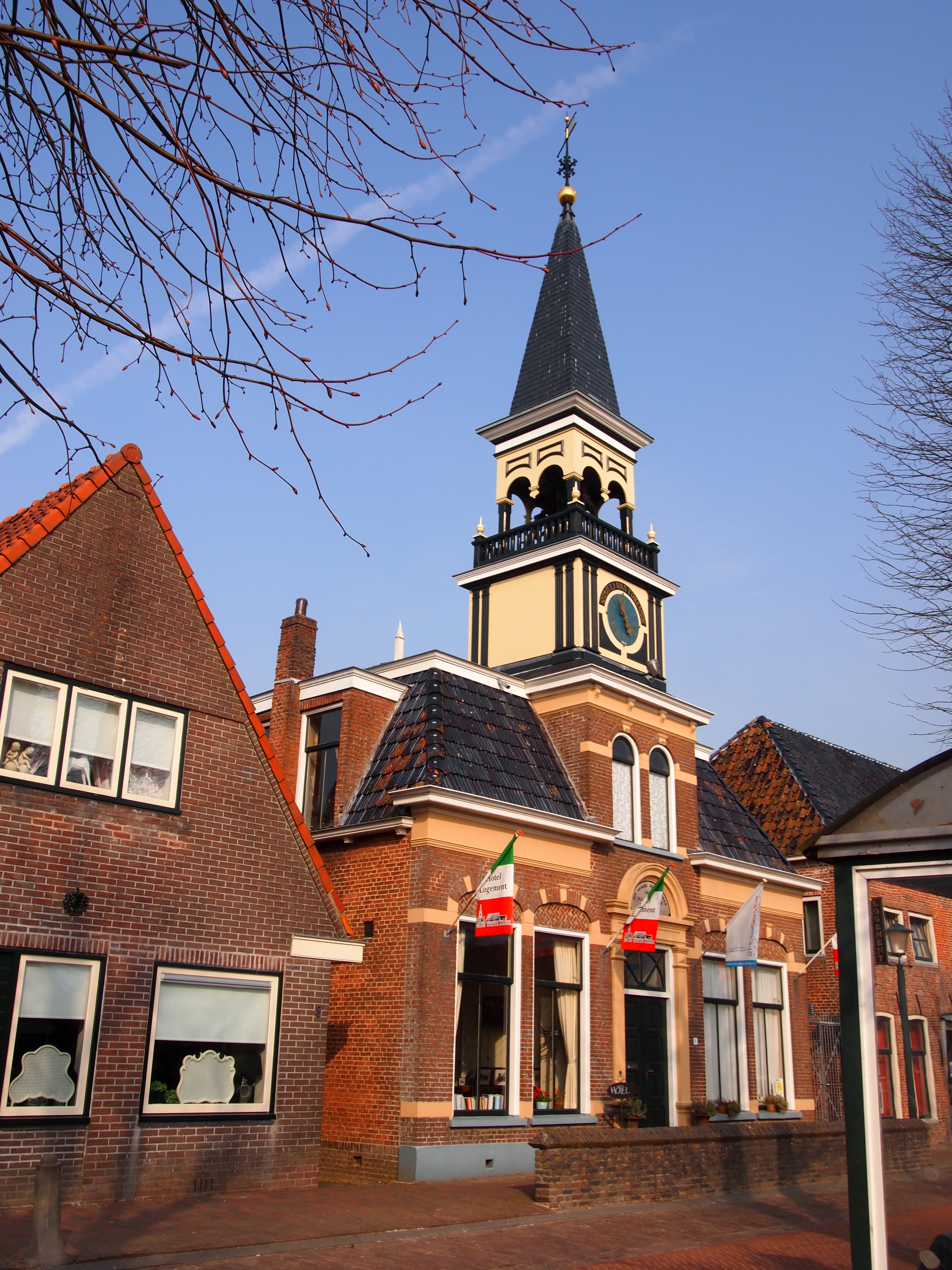 Doopsgezinde kerk Oudebildtzijl